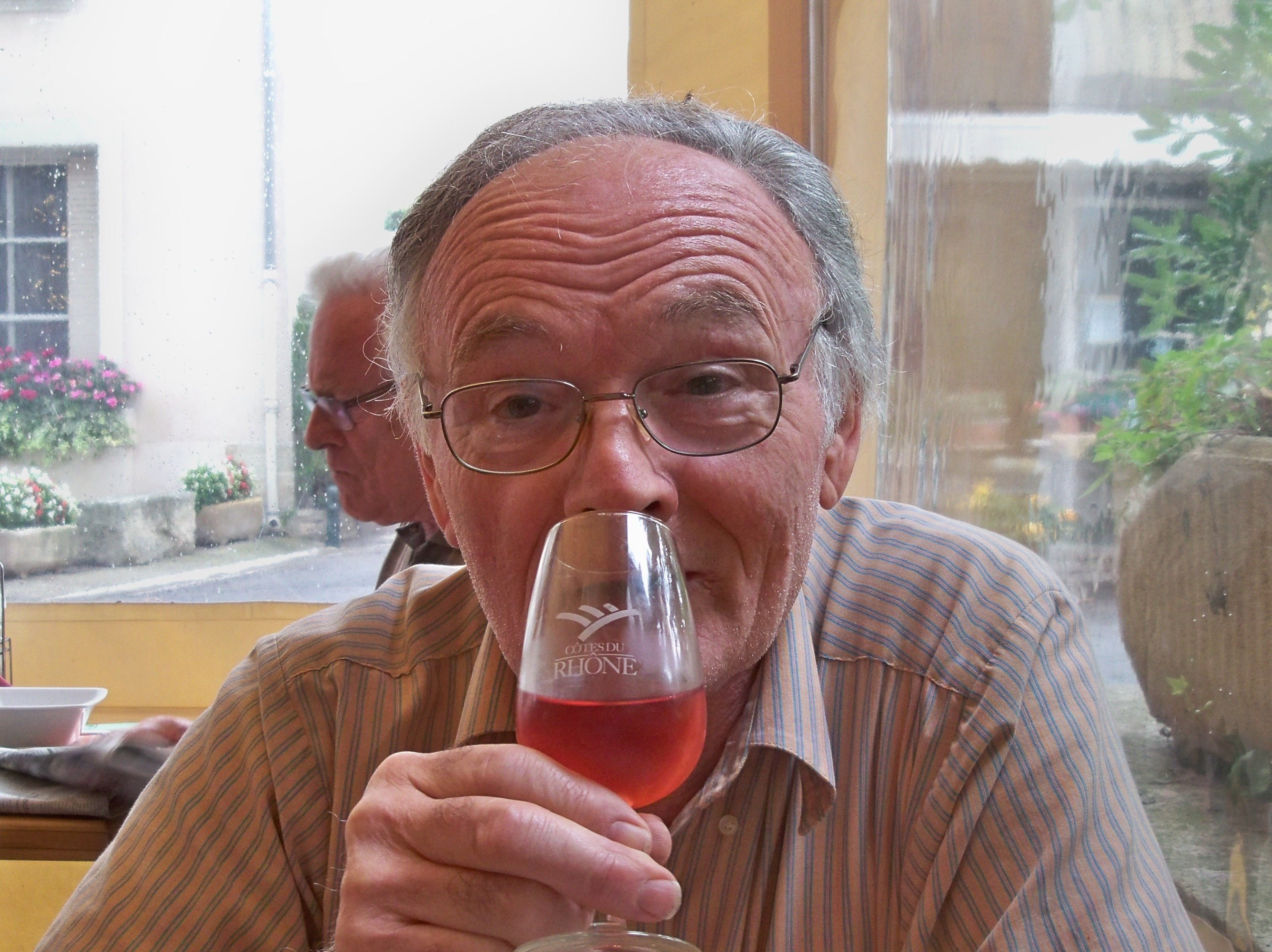 wine tasting